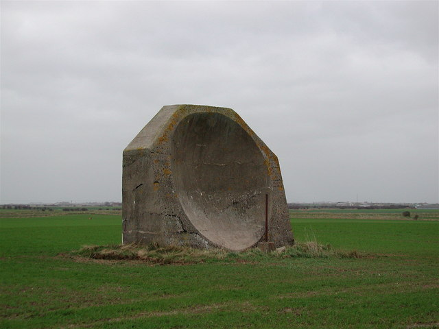 WW1 Acoustic Mirror, Kilnsea, East Riding of Yorkshire, England. Rare 4.5 metre high concrete structure near Kilnsea Grange, northwest of Godwin Battery, a relic of the First World War. On the pipe in front of the acoustic mirror was a trumpet-shaped ‘collector head’, a microphone which could pick up the reflected engine sound of Zeppelins approaching from the sea. Wires passed down the pipe to a listener seated in a trench nearby with a stethoscope headset, who would try to determine the distance and bearing of any enemy airships.